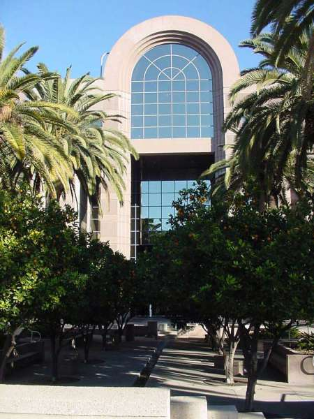 San Bernadino County Arrowhead Plaza